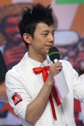 创可贴T恤, 快乐大本营, plastered t shirts